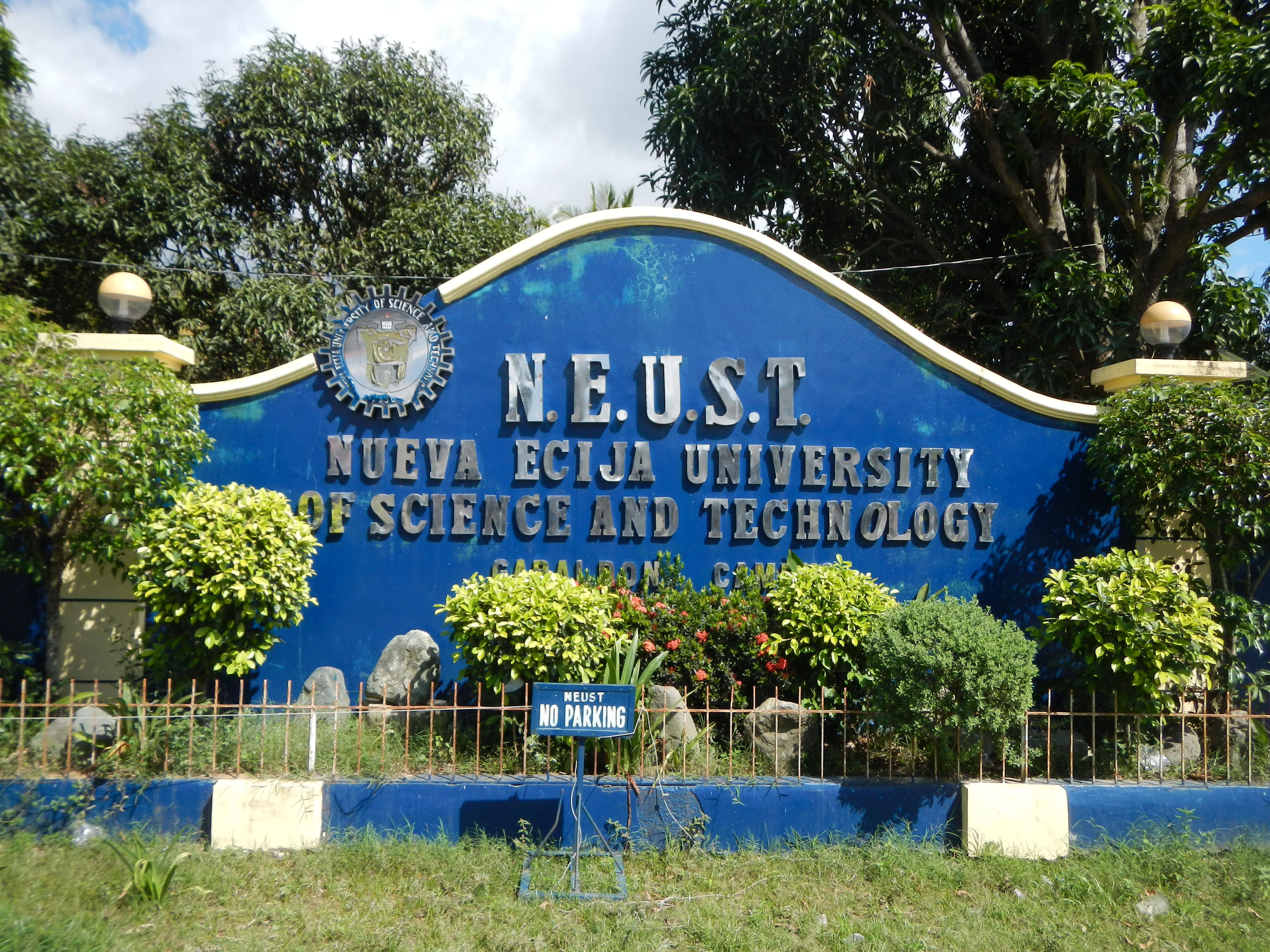 Gabaldon, Nueva Ecija[ ldon,_Nueva_Ecija] (formerly Sabani and Bitulok) is a fourth class municipality in the province of Nueva Ecija, Philippines; it has a population of 32,246 people in 2010. Ilog Carugang (Carugang River) serves as the gateway to Sitio Carugang, a far-off place in Gabaldon, Nueva Ecija. The river has been a silent witness to the harvesting of what the people of Carugang had sown, for merchants have to cross the river so they can buy the crops the farmers planted and reaped.[1] [2]Nueva Ecija University of Science and Technology